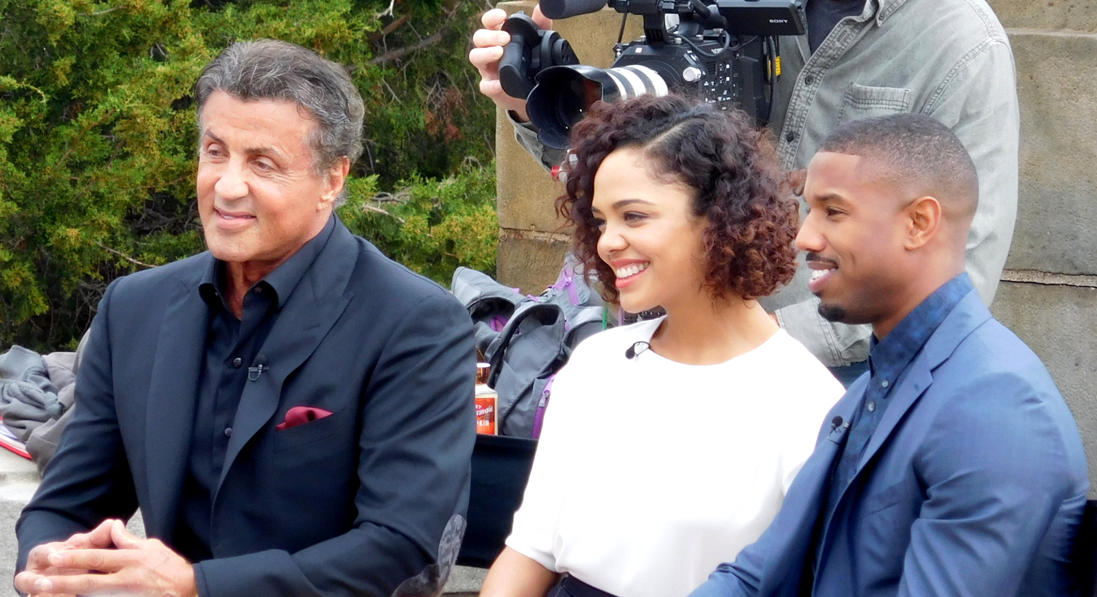 Sylvester Stallone, Tessa Thompson, and Michael B. Jordan promoting the movie Creed at the Philadelphia Art Museum in November 2015. This is immediately adjacent to the "Rocky Steps" made famous in the original Rocky movie.